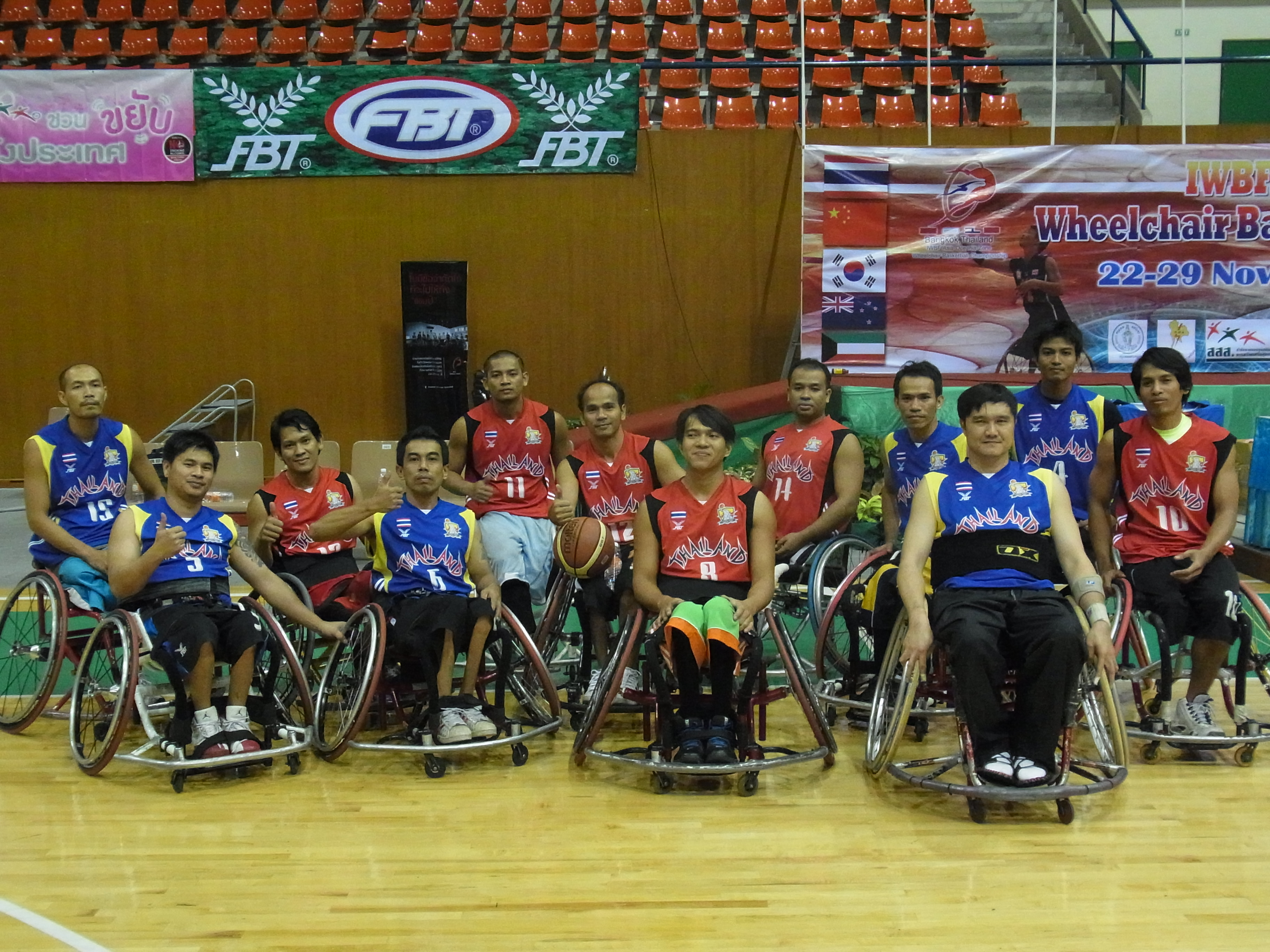 Thai mens wheelchair basketball team 2013